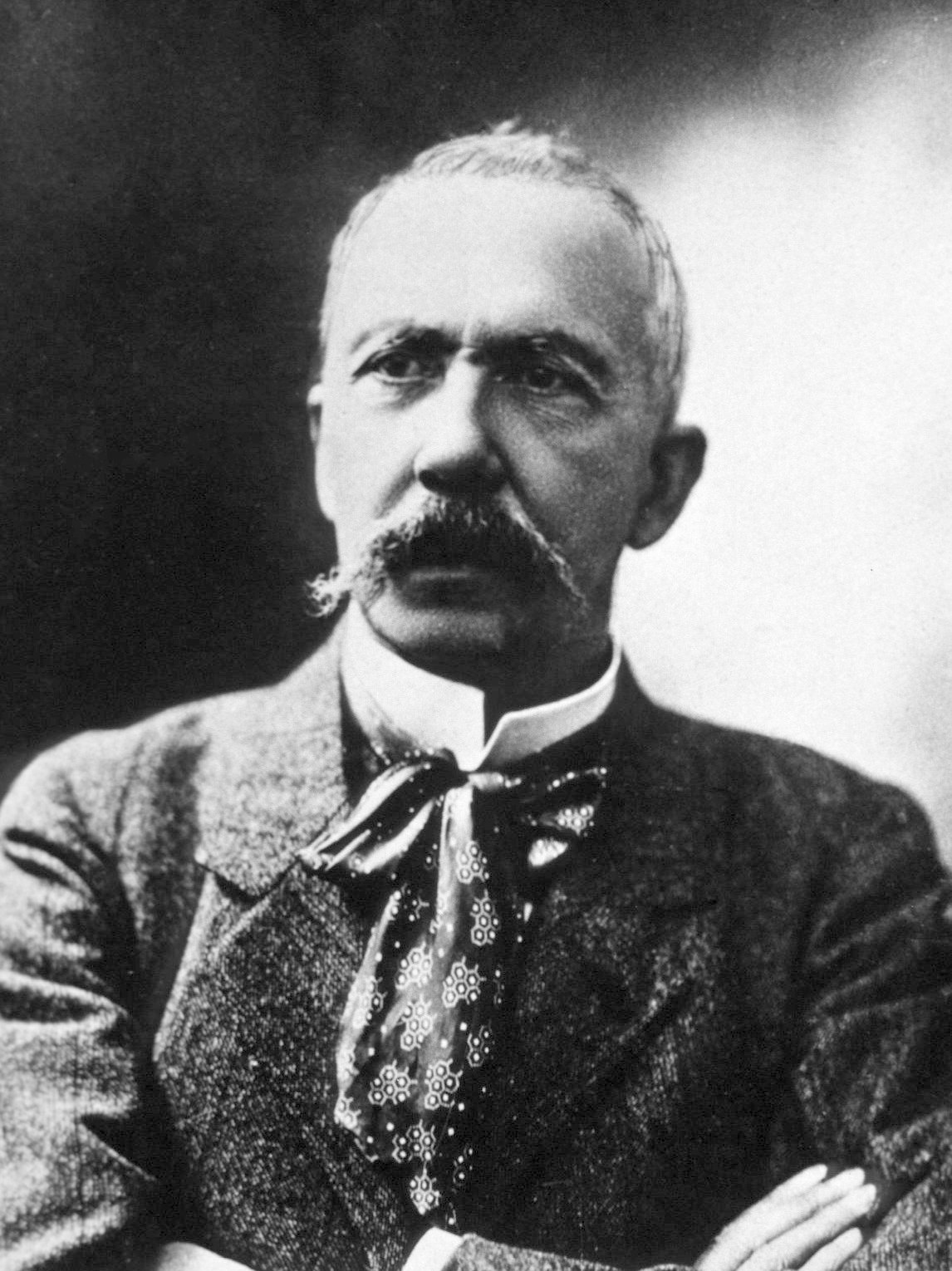 Charles Robert Richet (August 25, 1850 – December 4, 1935)